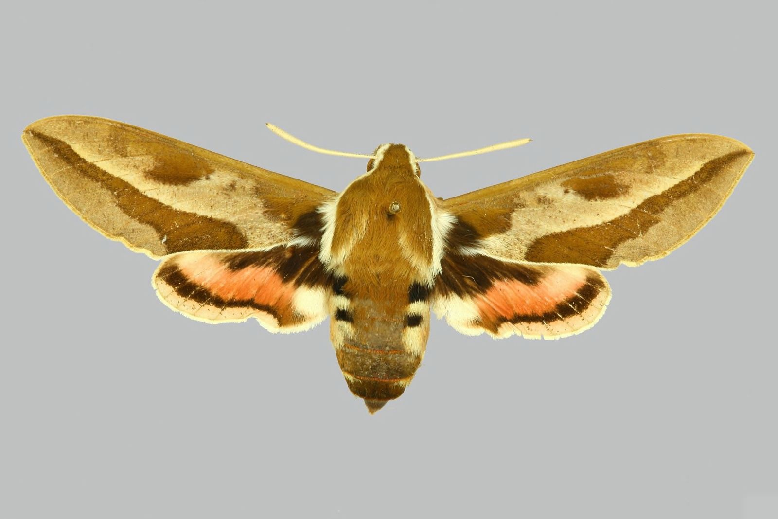 Hyles cretica, female, upperside. Greece, Rhodes, Miramare